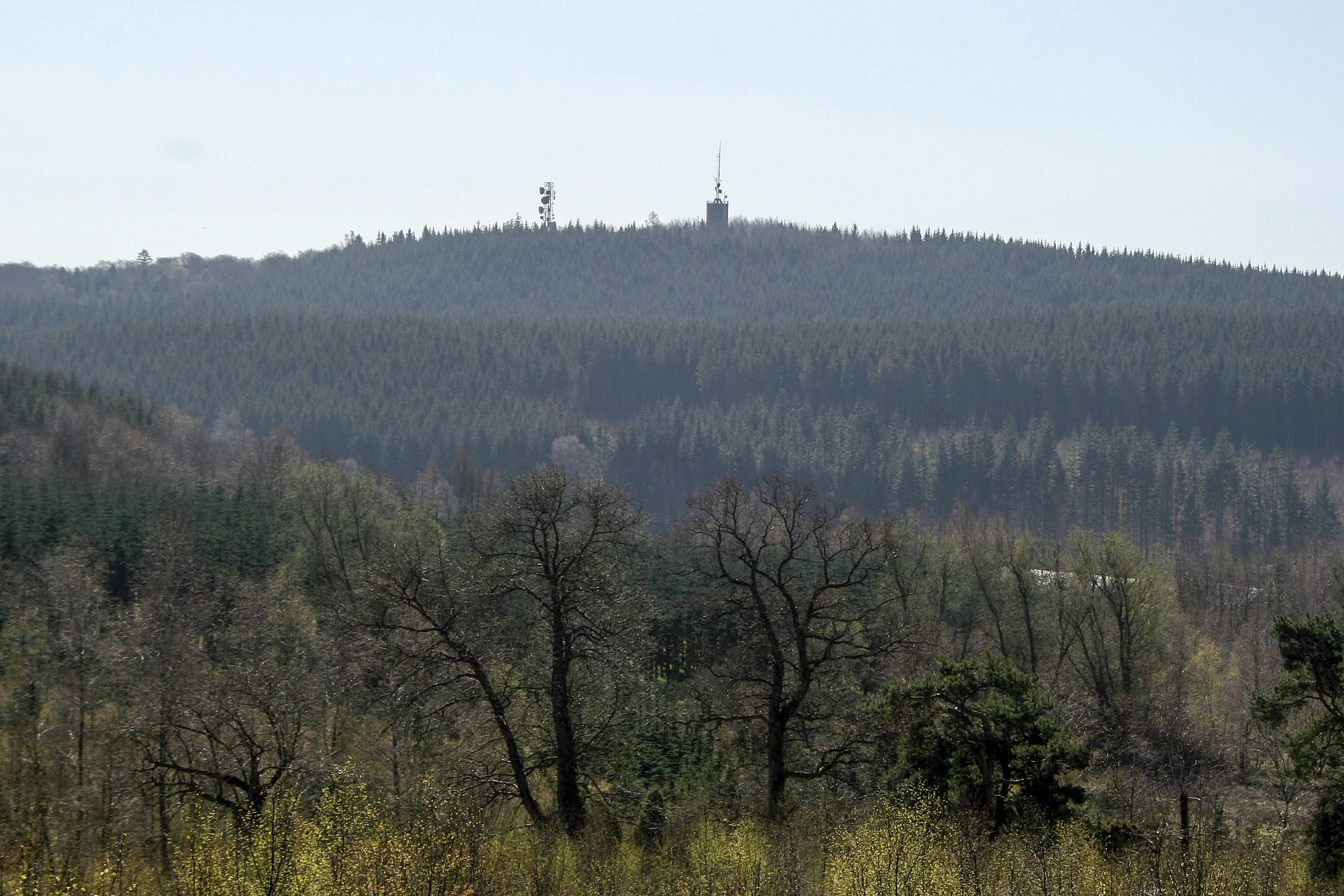 Romeleklint, a part of Romeleåsen, a Horst in southern Scania, Sweden.